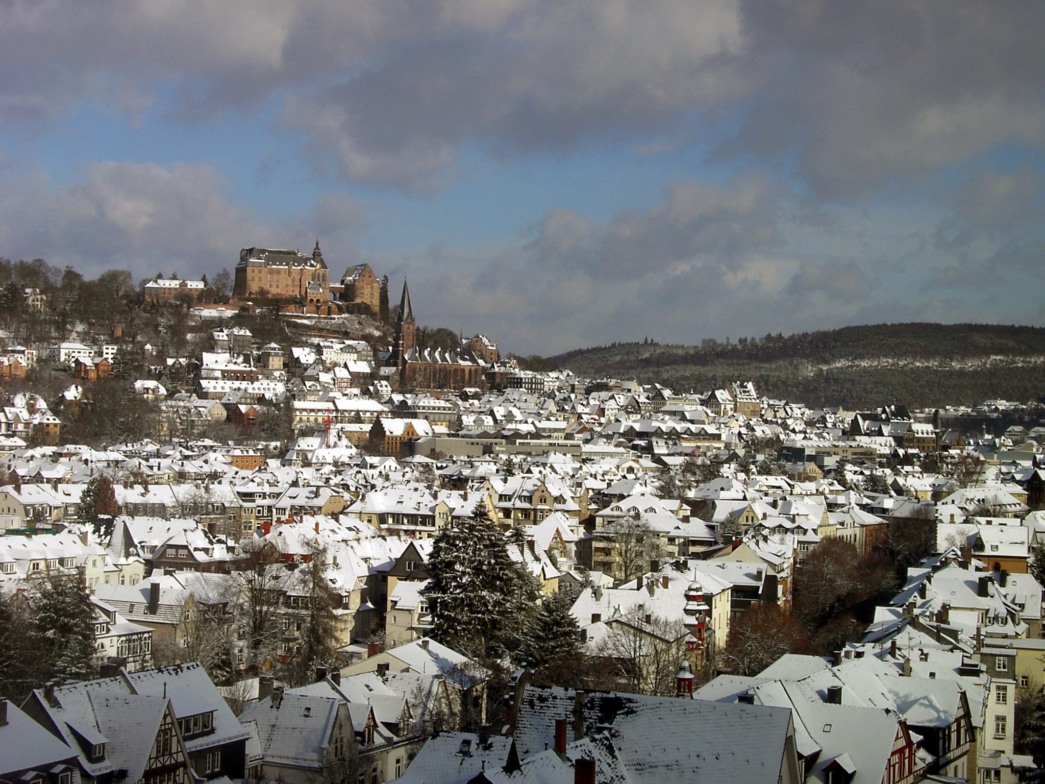 Winter in the city of Marburg, Germany, and the castle, seen from the south